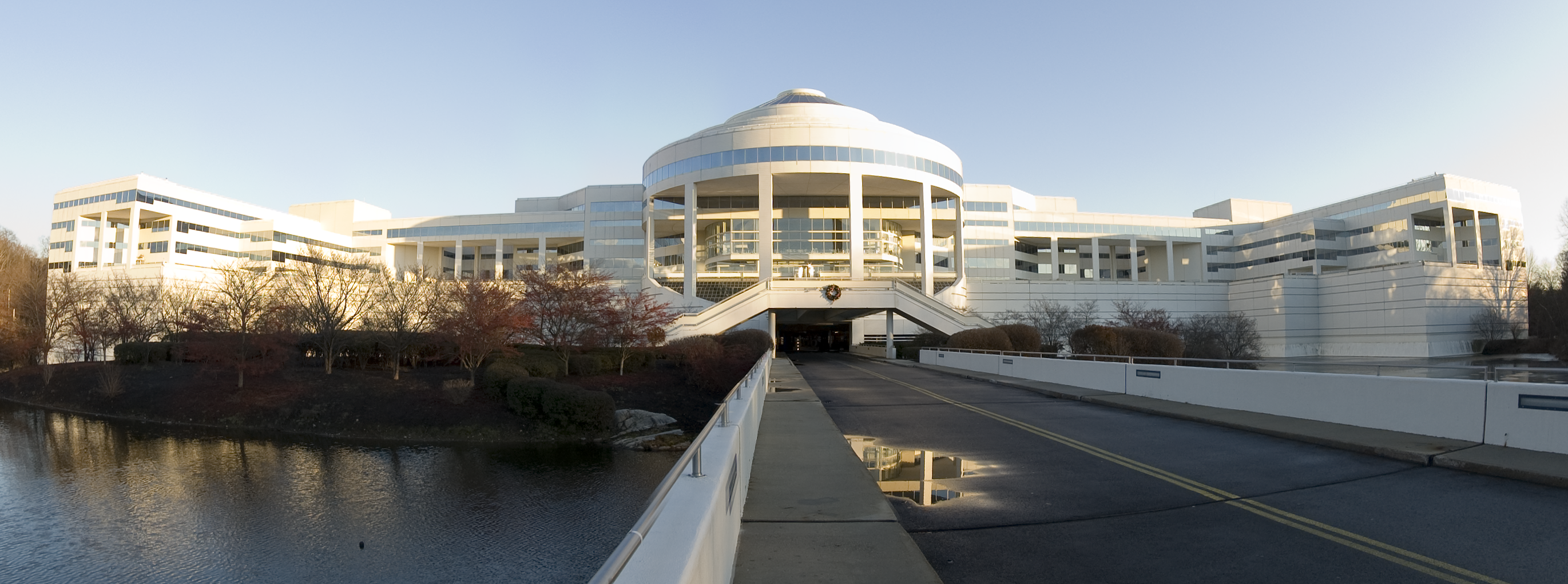 Vacant Corporate HQ in Harrison NY Nikon D70s, Tokina 10-17mm @ 10mm - 16 Exposures stitched using PTGui Best viewed large or original .